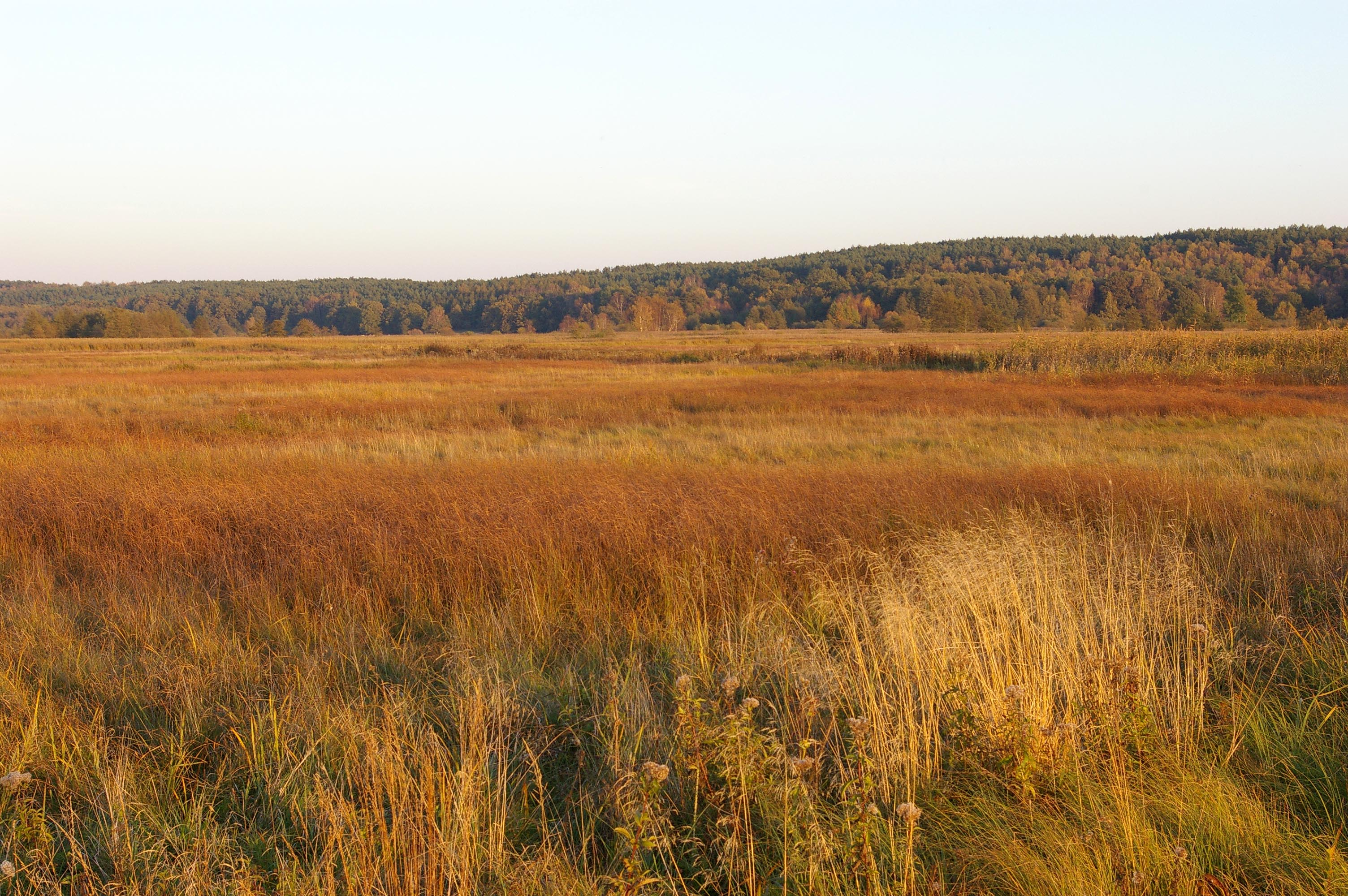 Autumnal aspect of the bog and moorland "Rambower Moor" in northern Germany.